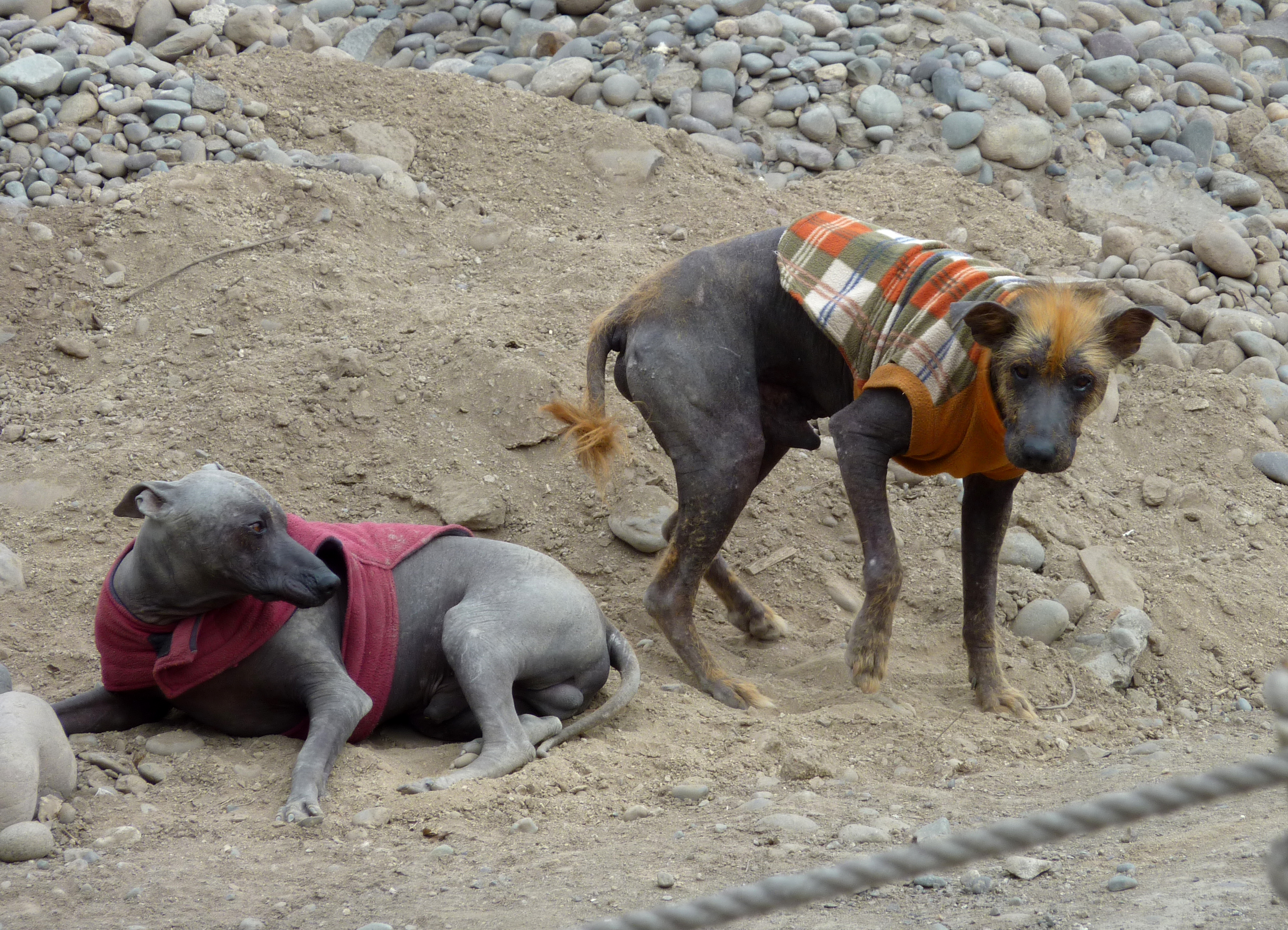 Peruvian hairless dog in the Huaca Pucllana archeological site, in Lima, Peru